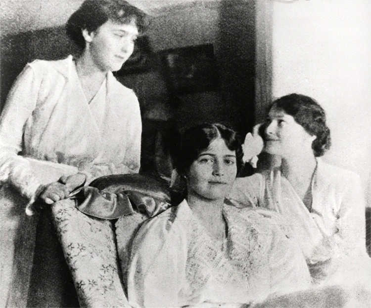 This photograph of Grand Duchesses Anastasia, Maria, and Tatiana Nikolaevna of Russia in captivity during the spring of 1917 is from a posting at I'm not certain where it was originally published, but it is a photo that has been published in various publications. Because of its age, I think it's likely in the public domain. If I'm mistaken, please delete it immediately.